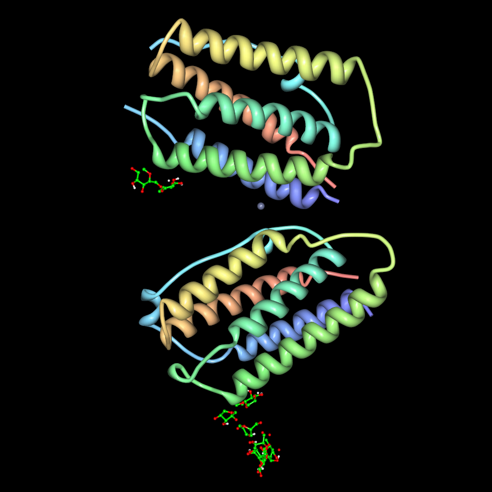 he crystal structure of human interferon beta at 2.2-A resolution. Karpusas, M., Nolte, M., Benton, C.B., Meier, W., Lipscomb, W.N., Goelz, S.